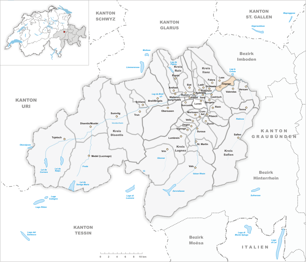 Municipality Sagogn